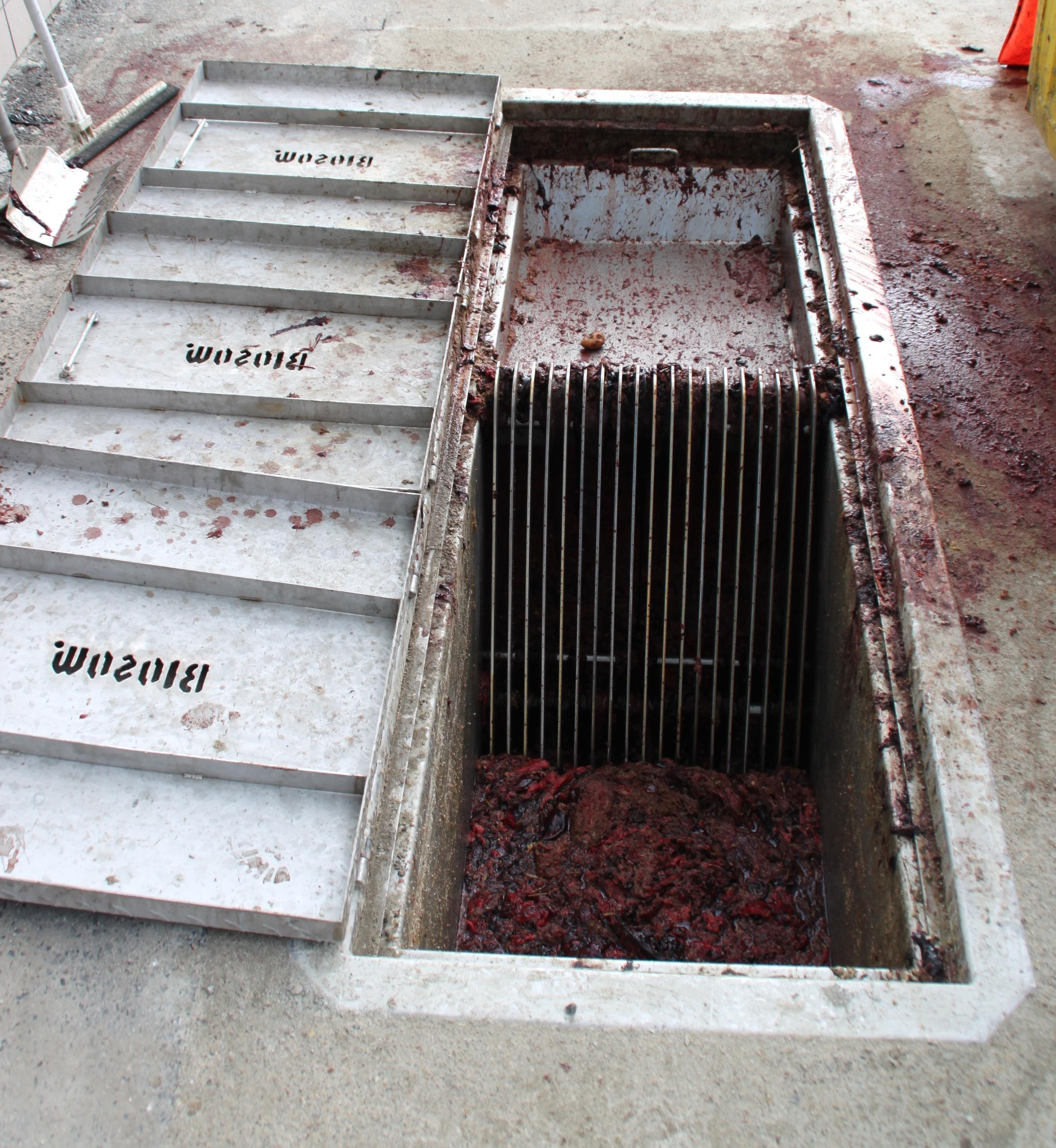 Hand grate installed in a cattle slaughterhouse